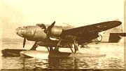 Italian Fiat RS.14 floatplane reconnaissance aircraft